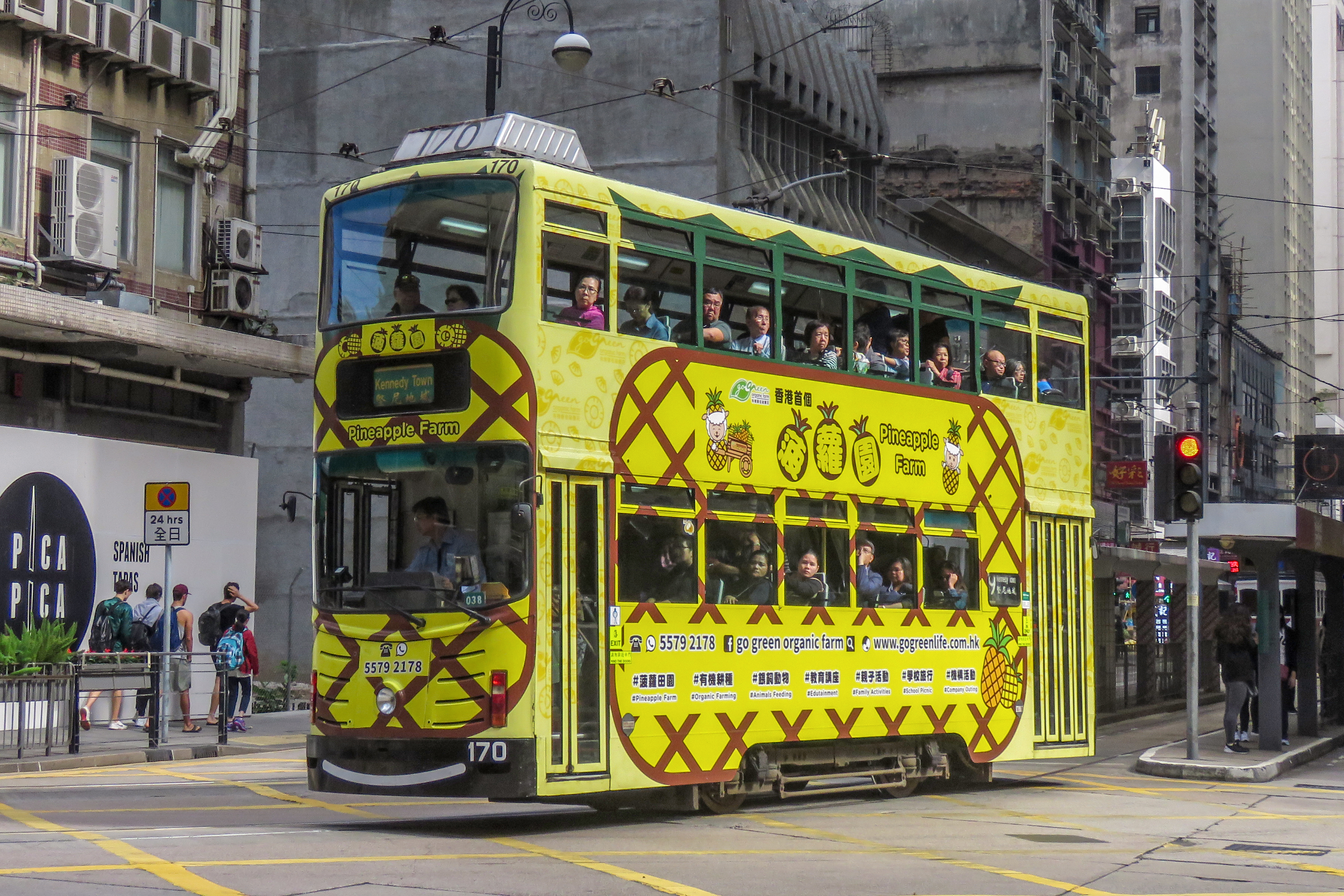 Pineapple-pen.